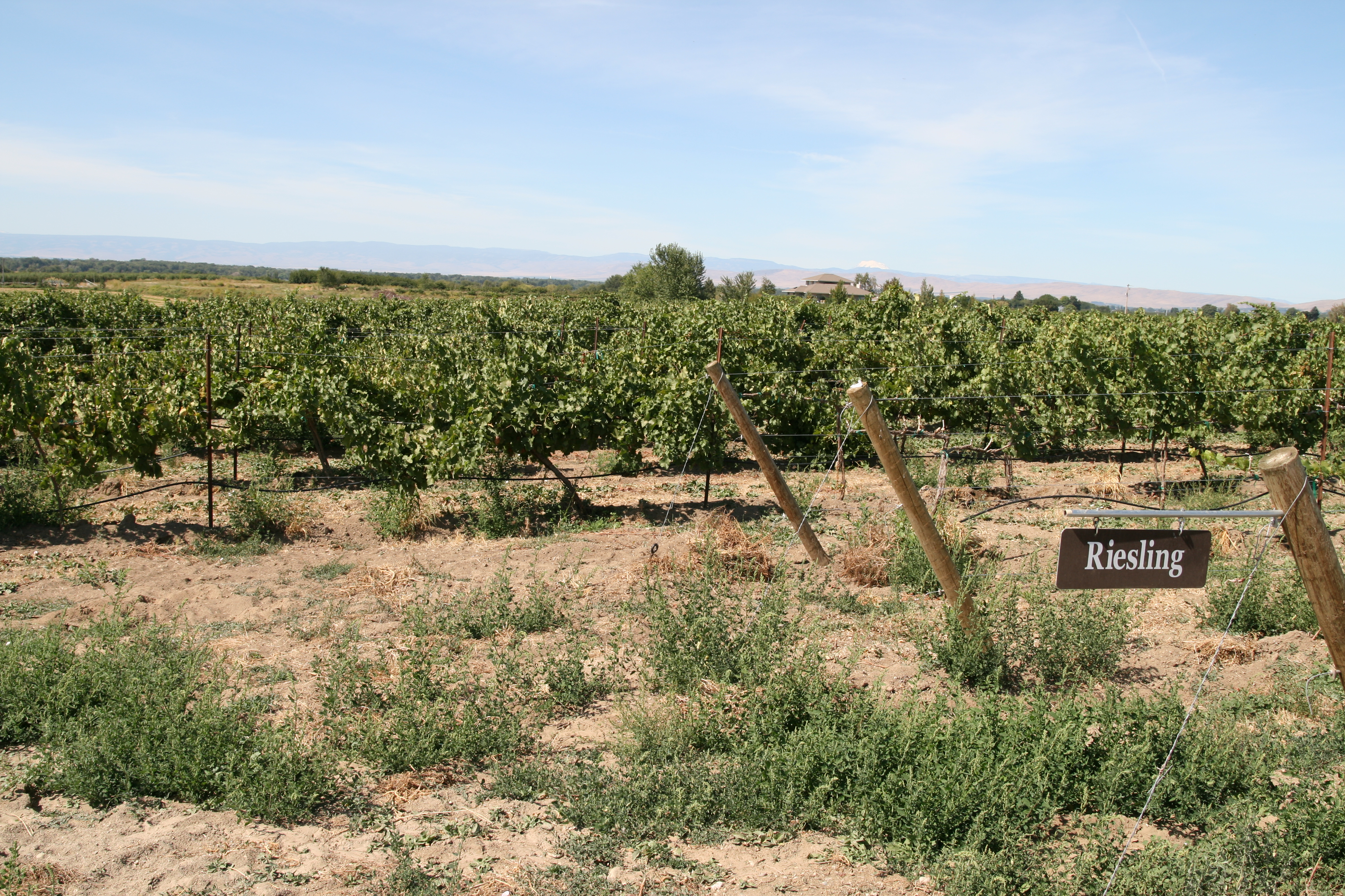 A field of Riesling at Bonair Winery in the Rattlesnake Hills wine region of Yakima River Valley, Washington state.